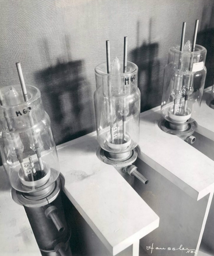 Photo of high frequency tubes used in the NBC New York television transmitter, 1936.